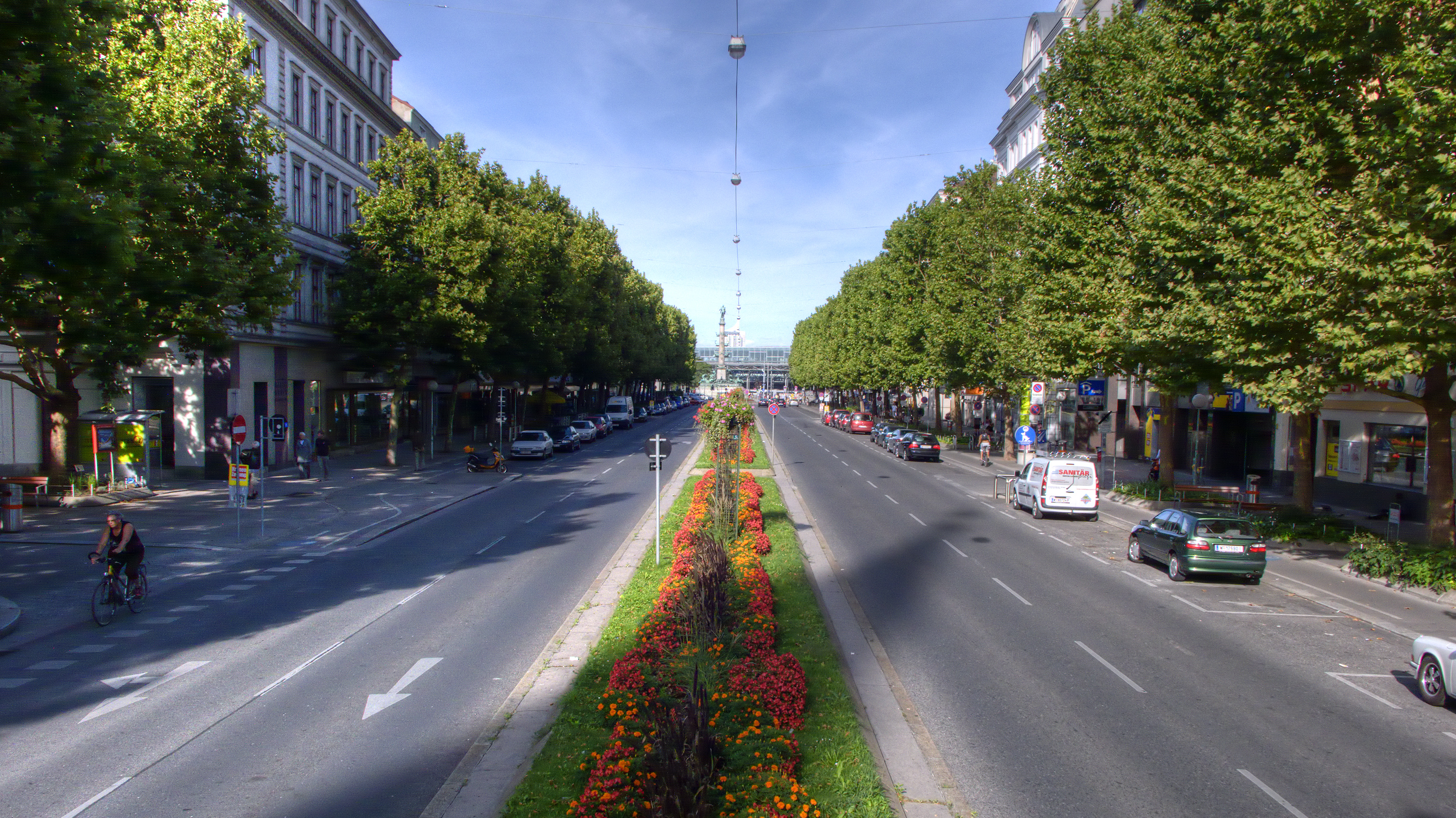 Praterstraße in Vienna / Leopoldstadt